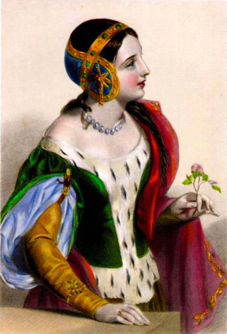 A 14th century engraving of Isabella of France, later Isabella of England